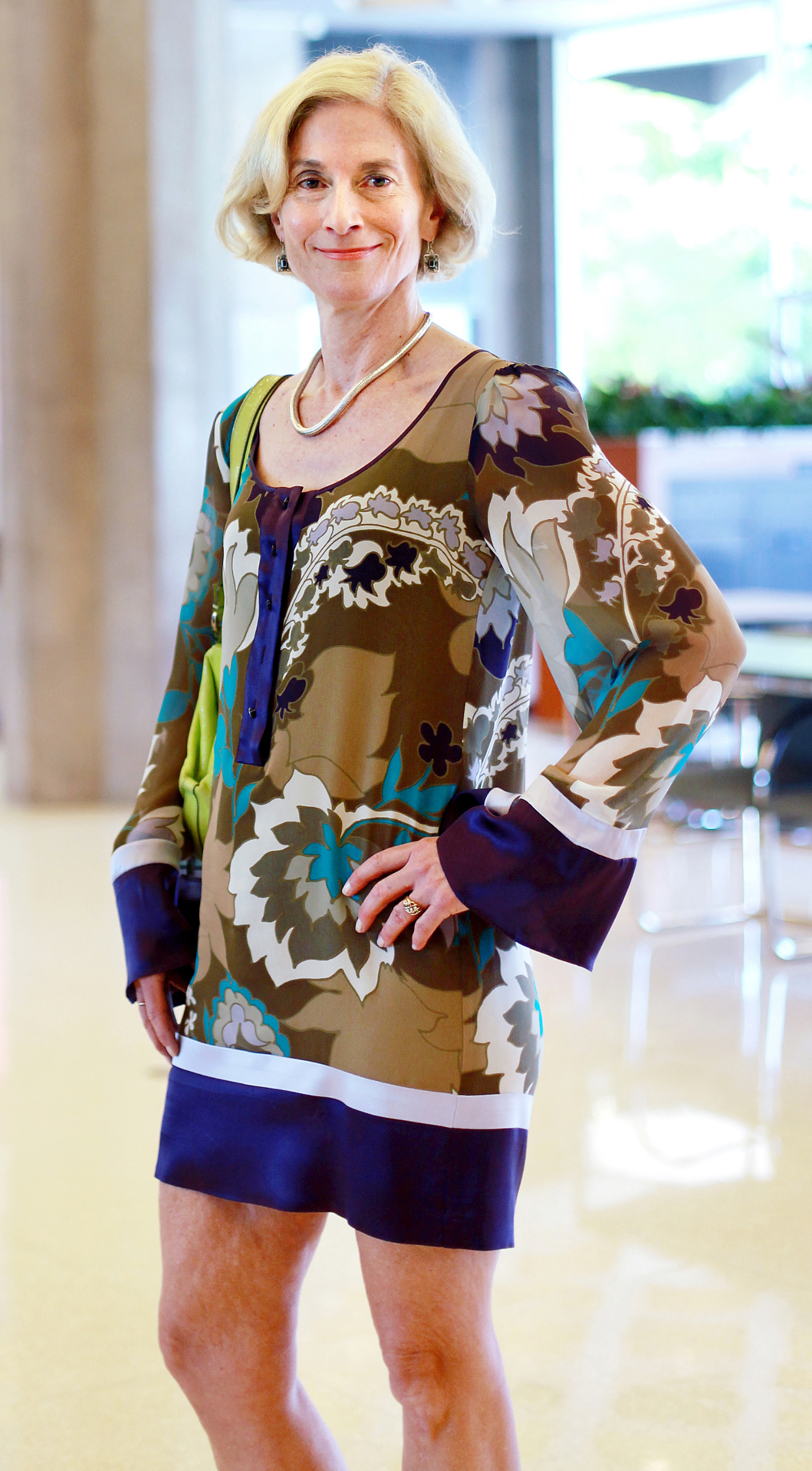 Photograph of Martha C. Nussbaum taken by Sally Ryan, August 24, 2010. Photograph was taken in the Harold J. Green Law Lounge at the University of Chicago Law School.